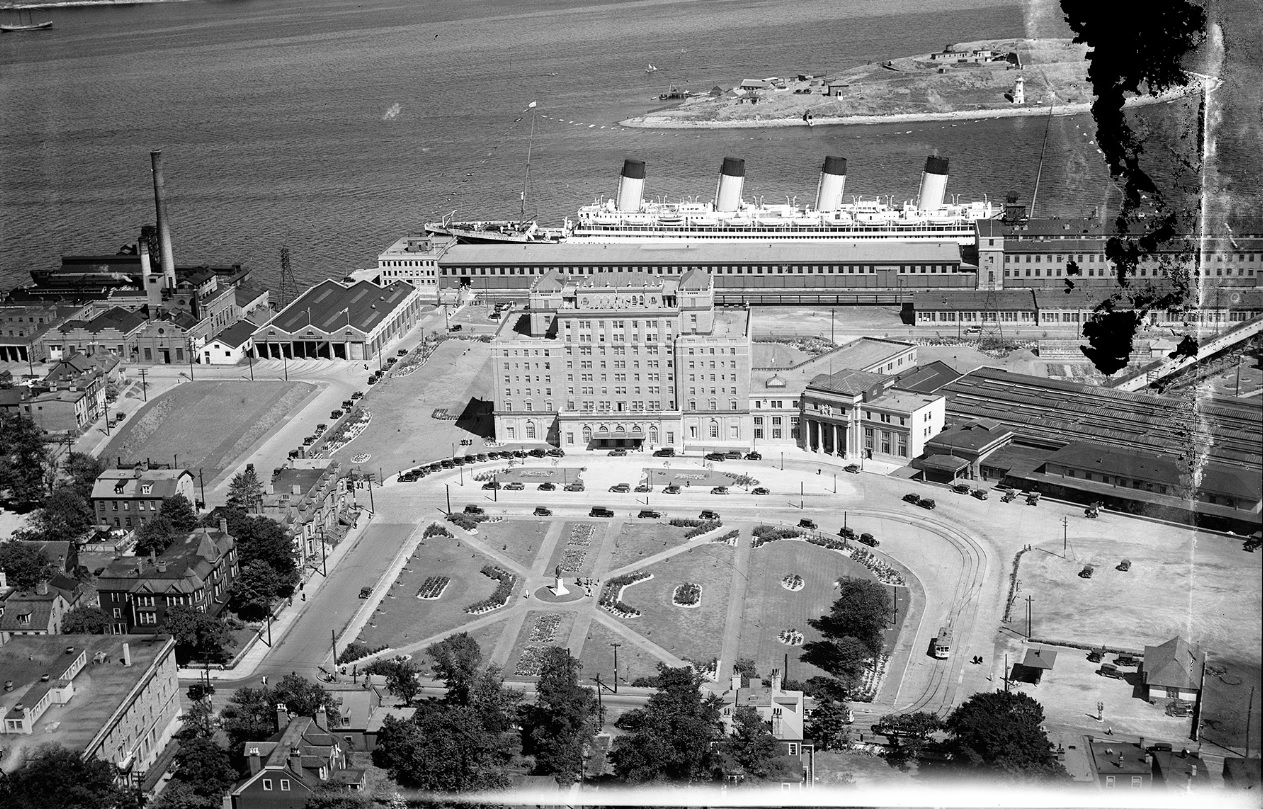 The Nova Scotian Hotel, Cornwallis Park, railway station and pier in Halifax, Nova Scotia. Photographed in 1931. RMS Olympic Is docked at the pier. Photo scanned for BuiltHalifax.ca blog post.